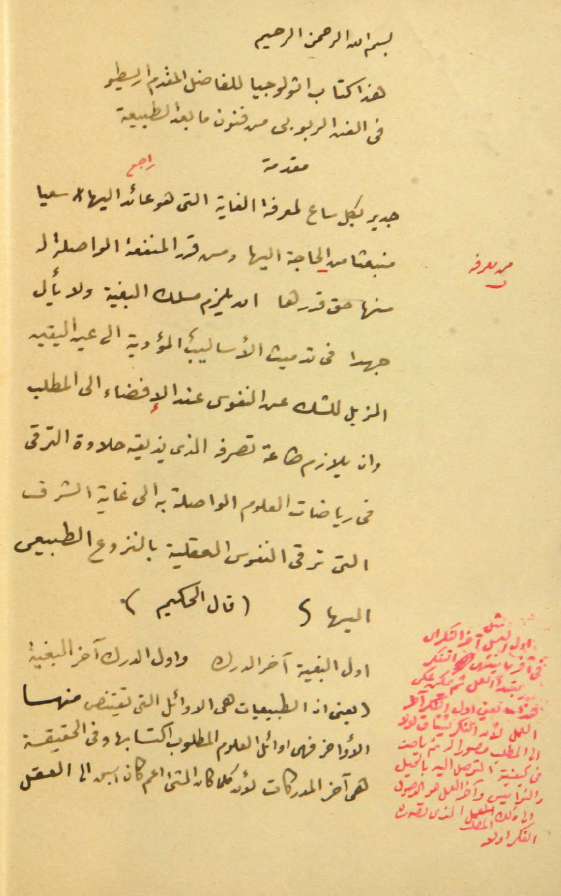 Page of manuscript from "The Theology of Aristotle" - Thuyūlūjiyā Arīsṭū ay Fann al-tawḥīd al-ṣarīḥ min al-ʻilm al-ilāhī, [193-?] - Islamic Manuscripts at Michigan.